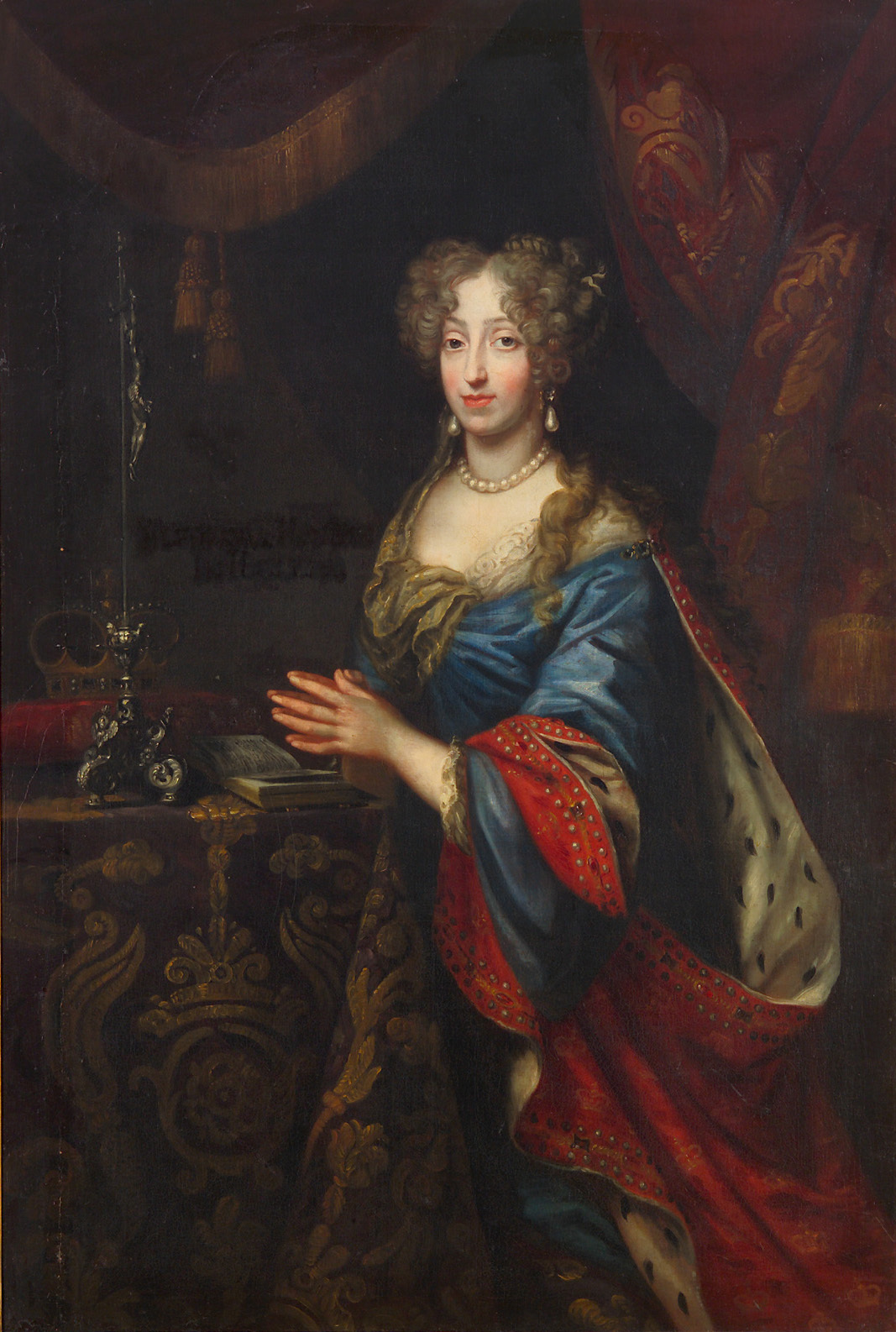 Daughter of Ferdinand III, Holy Roman Emperor, Queen Consort of Poland, Wife of Michael Wiśniowiecki King of Poland (1640-1673), from 1678 wife of Charles V (1643-1690), Titulary Prince of Lorraine and Bar, Austrian Field Marshall.